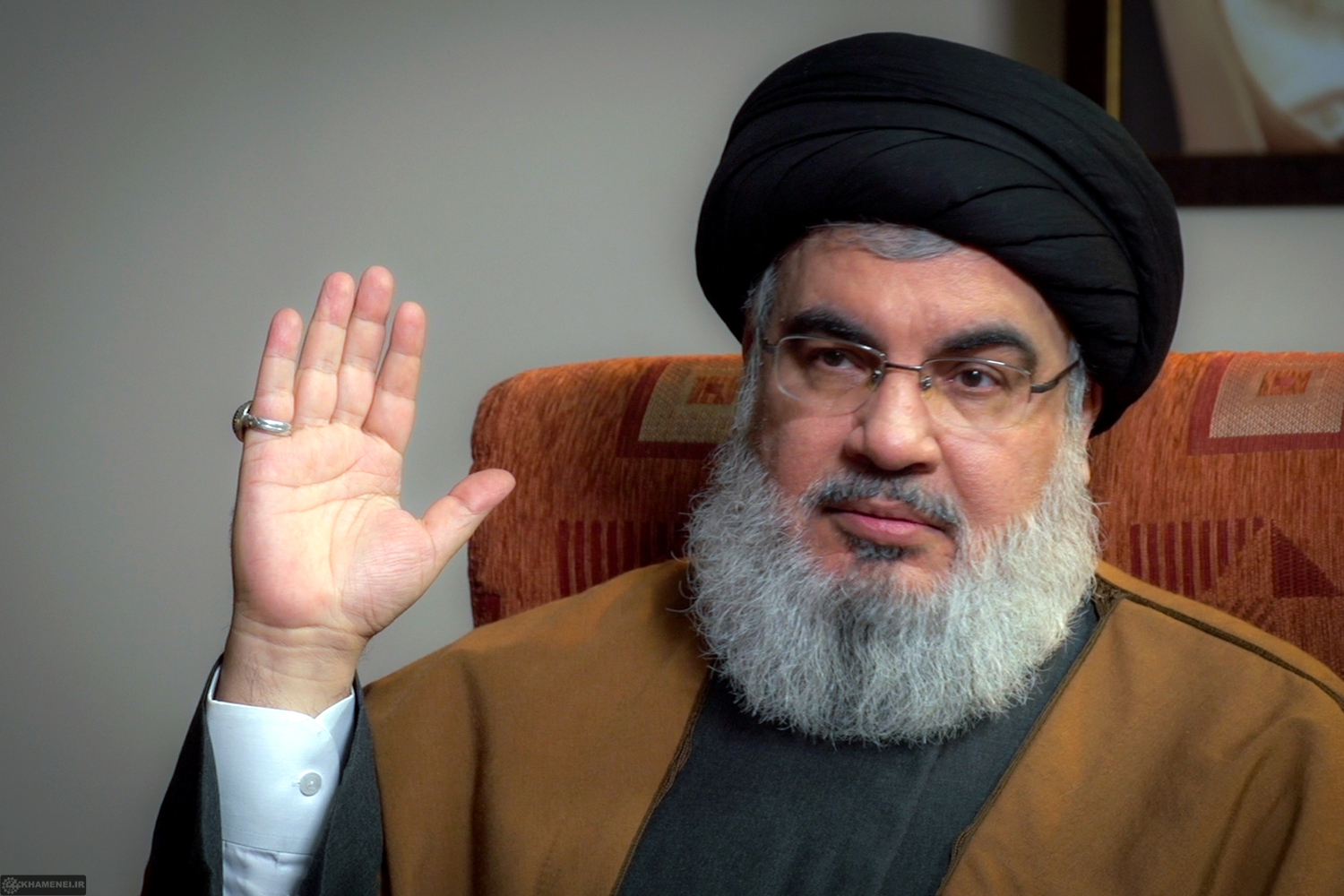 Hassan Nasrallah during a discussion with officials from supreme leader of Iran Ali Khamenei’s office.